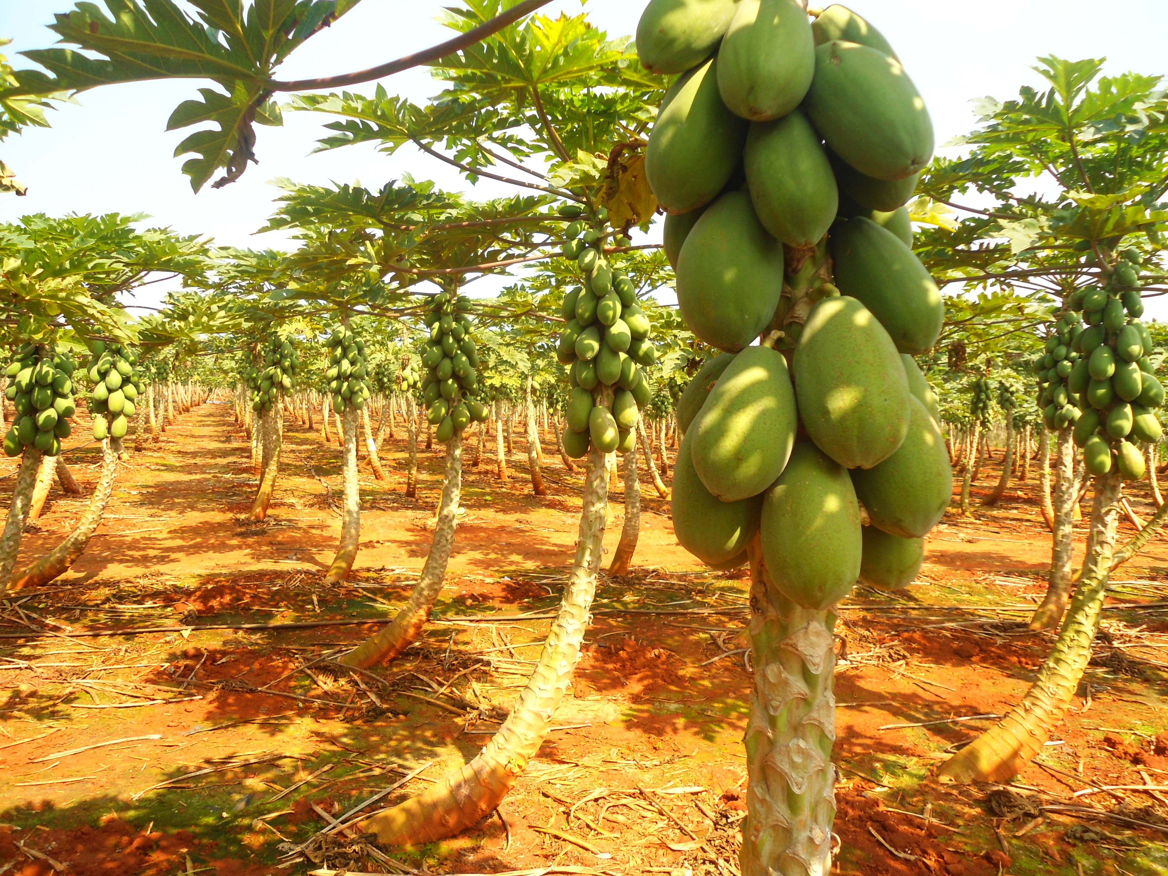 Papaya plantation near Fushan town, Hainan, China.